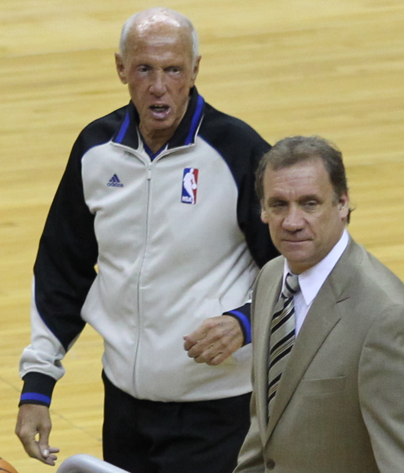 Boston Celtics v/s Washington Wizards April 11, 2011